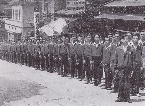 Militia of the League of Korean Residents in Japan